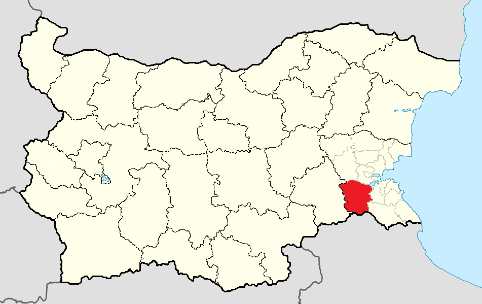 Location map of Sredets Municipality within Bulgaria and Burgas Province Equirectangular projection, N/S stretching 130 %. Geographic limits of the map: N: 44.4° N S: 41.1° N W: 22.1° E E: 28.9° E